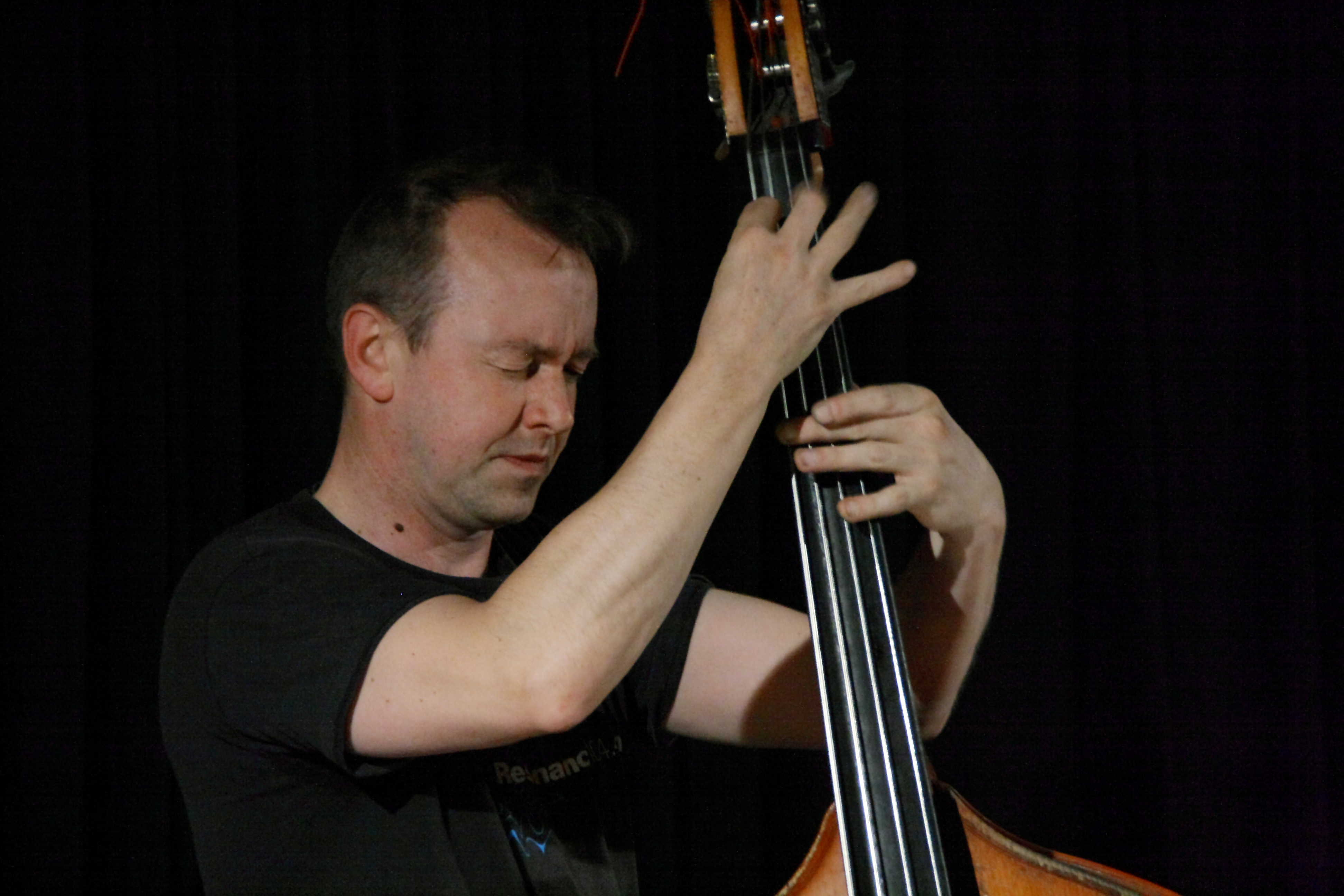 John Edwards mit PaPaJo im Club W71, Weikersheim